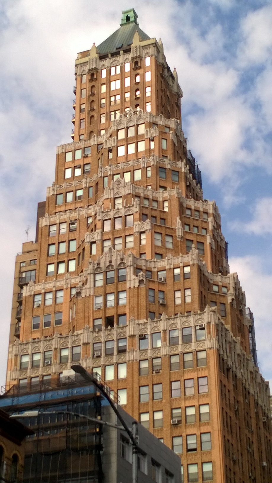 Exterior façade of 75 Livingston Street in Brooklyn, New York.